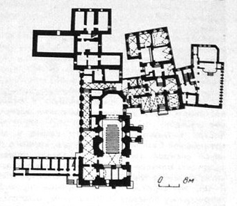 Plan of benediktines convent in Lviv, Ukraine